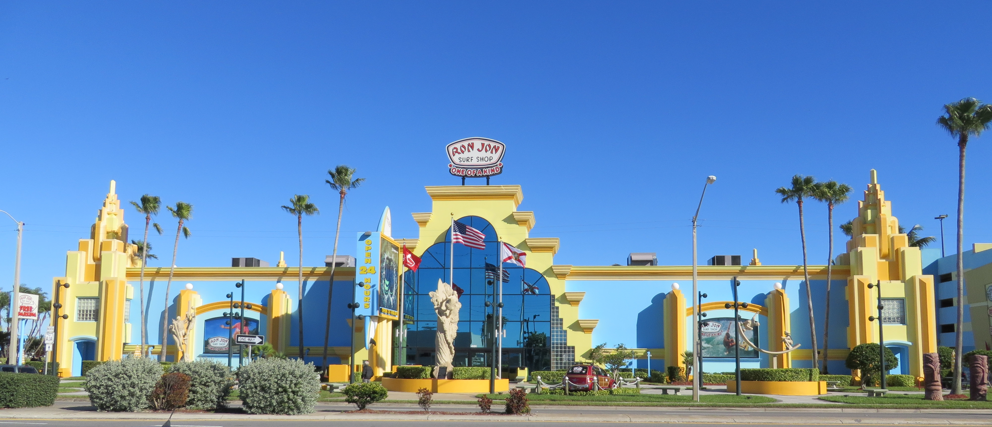 Ron Jon Surf Shop, 4151 North Atlantic Avenue, Cocoa Beach, Florida.